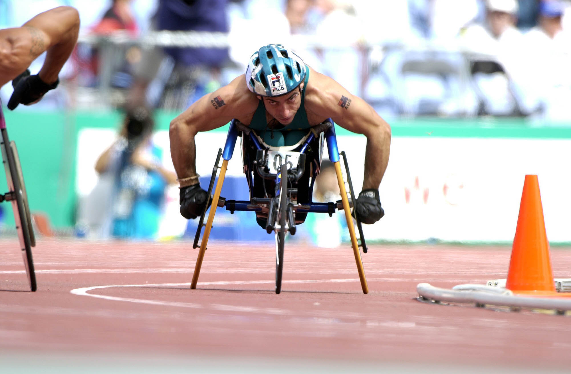 Action shot of Australian wheelchair racing athlete Paul Nunnari during the 800 m heat at the 2000 Sydney Paralympic Games, Day 04